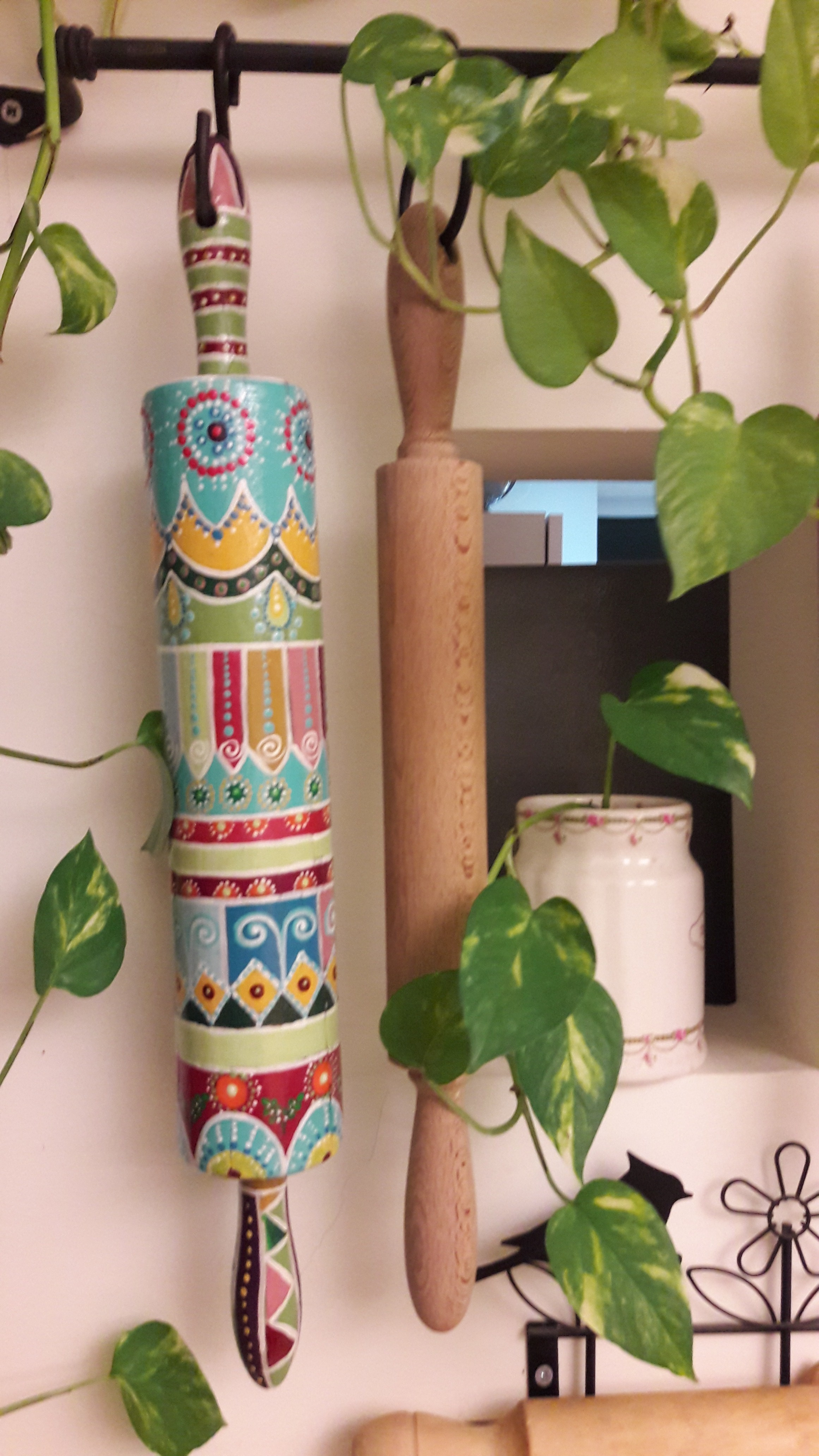 A painted rolling pin